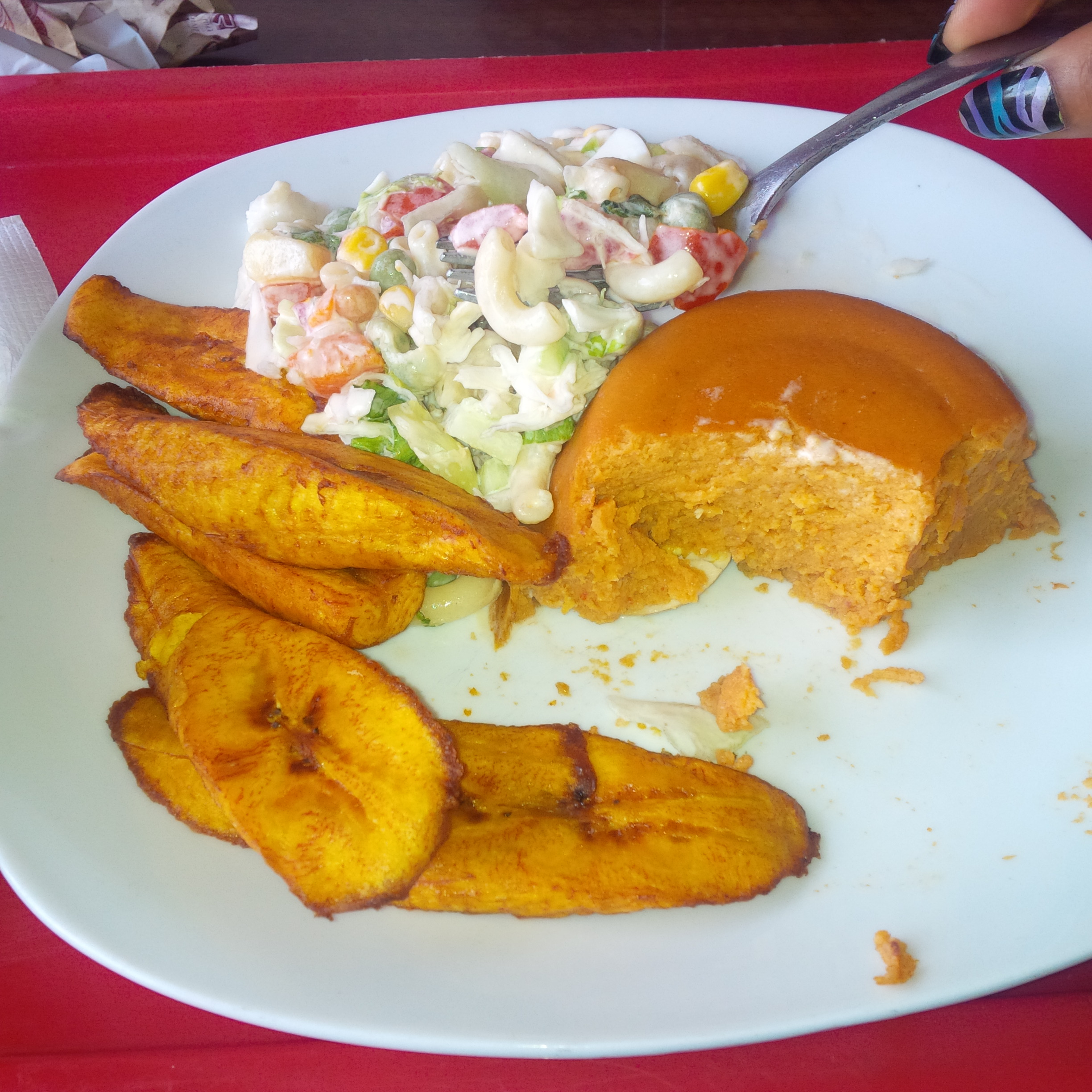 ground beans spiced and steamed. served with fried plantain and pasta salad